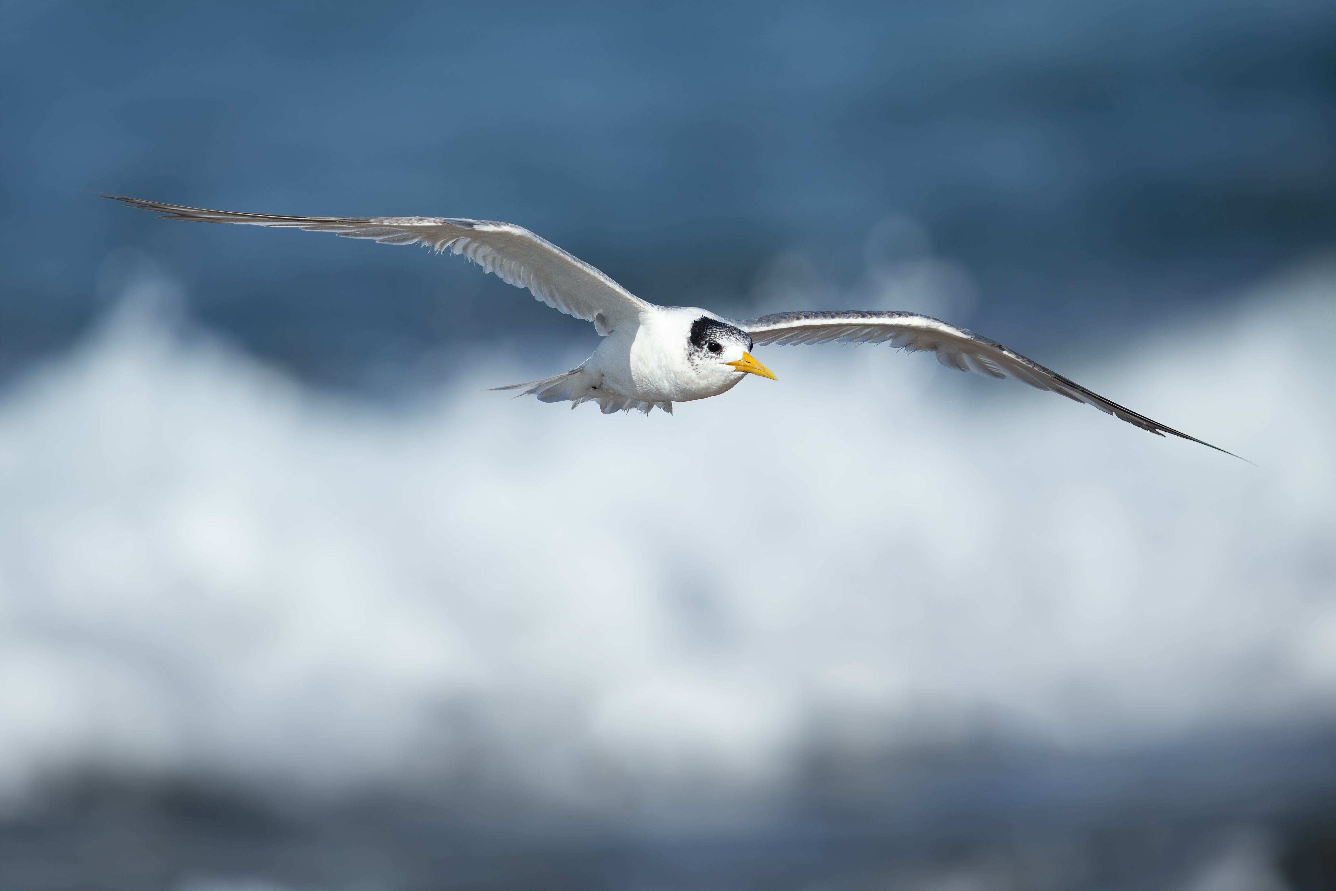 Greater Crested Tern (Thalasseus bergii) in flight. Boat Harbour, New South Wales, Australia